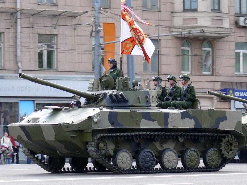 BMD-4 Bakhcha-U.